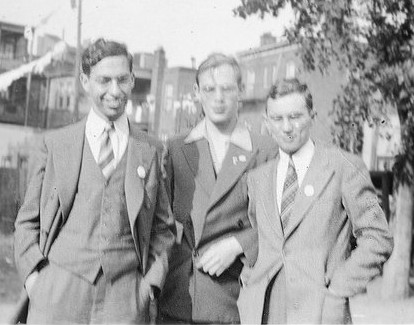 Wollheim family photo of Donald Allen Wollheim, Frederik Pohl and John Michel. Donated by Elizabeth Wollheim, for Public Domain